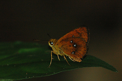 By Dhaval Momaya. Shot in the Myristica Swamps of Shendurny Wildlife Sanctuary, Kollam, Kerala during June 2007.